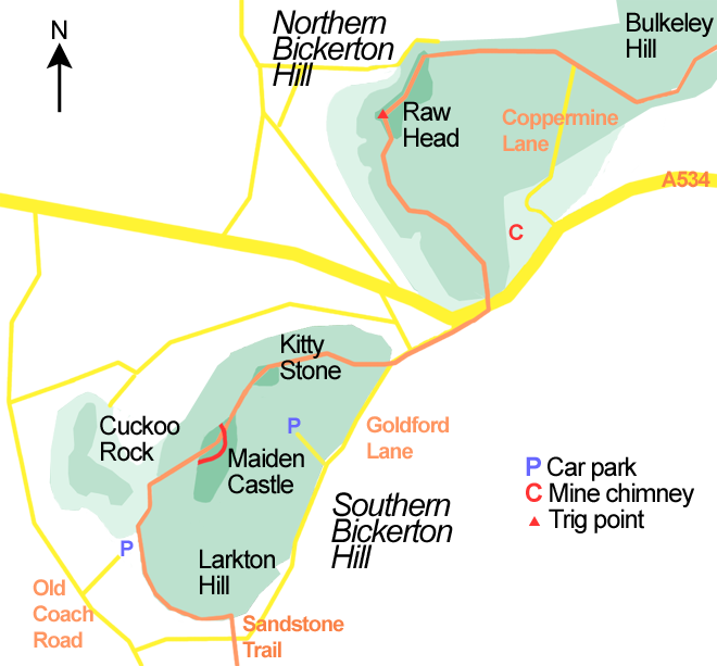 Sketch map showing the two Bickerton Hills, Cheshire. C: mine chimney; P: car park; red triangle: trig point